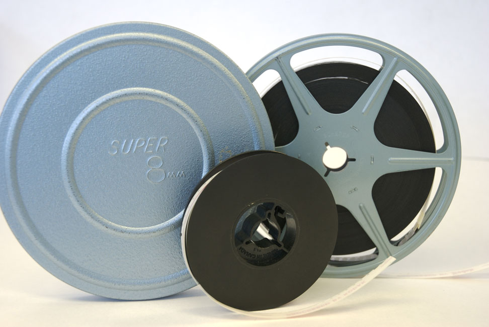 Various 8mm and Super 8 reels.